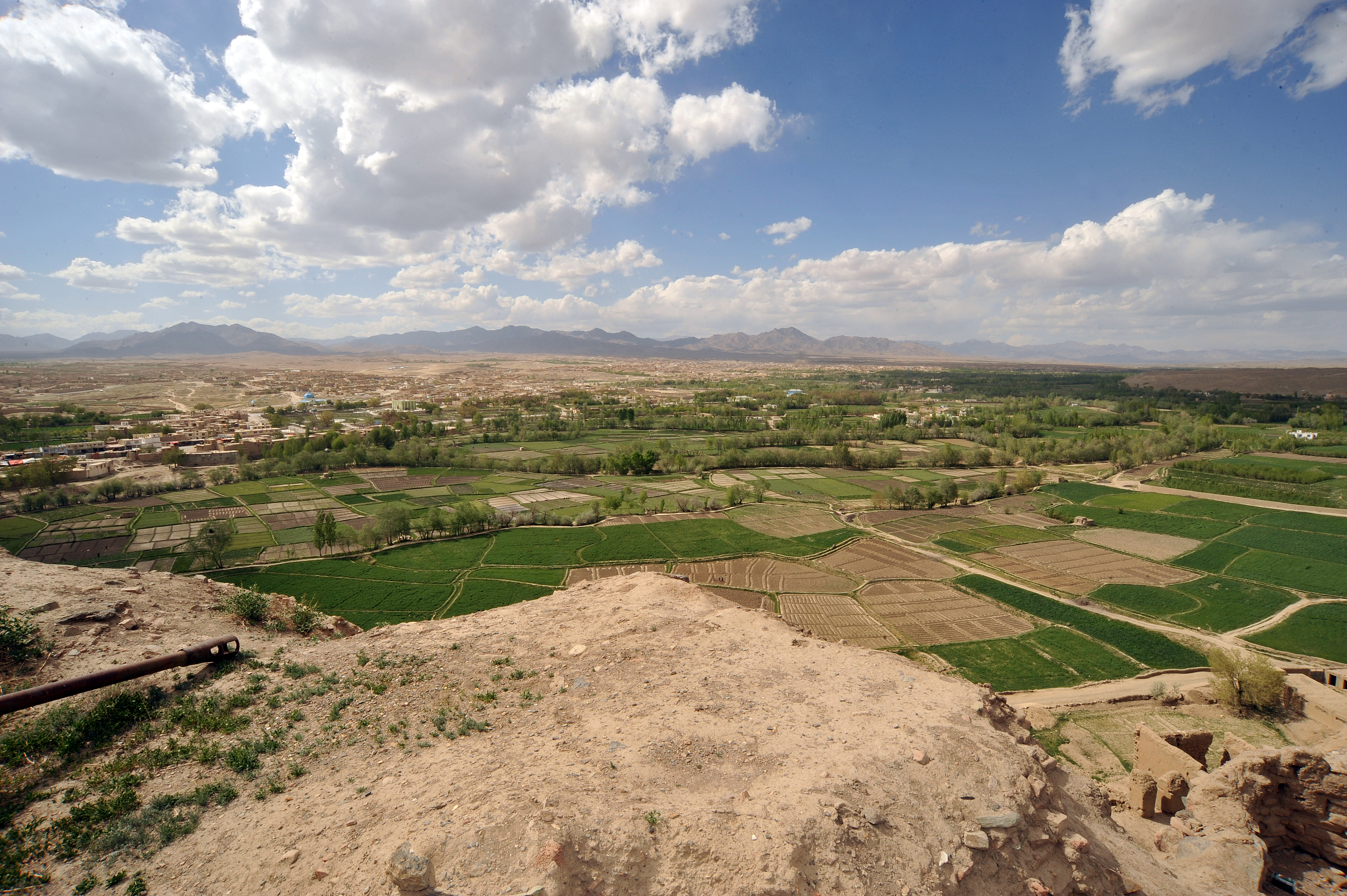 Members from Ghazni Provincial Reconstruction Team visited Old Ghazni City, April 18, 2010, located in Ghazni province, Afghanistan. (photo: 271018)